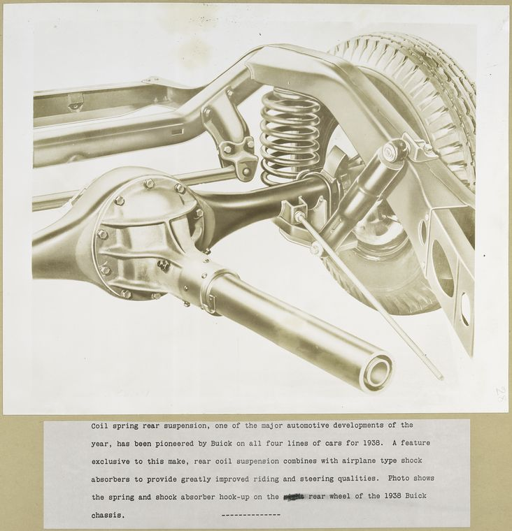 Digital ID: 481986. [The spring and shock absorber hook-up on the rear wheel of the 1938 Buick chassis.] Source: Photographs of General Motors and Chrysler car and truck models, 1902 - 1938. / General Motors Company. Buick 1904-1938 Photographs, Specifications. (more info) Repository: The New York Public Library. Science, Industry and Business Library. General Collection Division. See more information about this image and others at NYPL Digital Gallery. Persistent URL: Rights Info: No known copyright restrictions; may be subject to third party rights (for more information, click here)